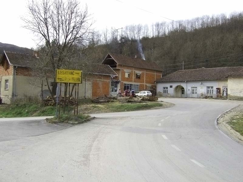 Svođe, near Vlasotince, Serbia